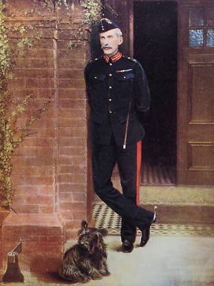 "Lieutenant-General H. J. T. Hildyard, C.B. (Commanding Fifth Division - South Africa)", from an original portrait, produced by Knight of London, 1900.